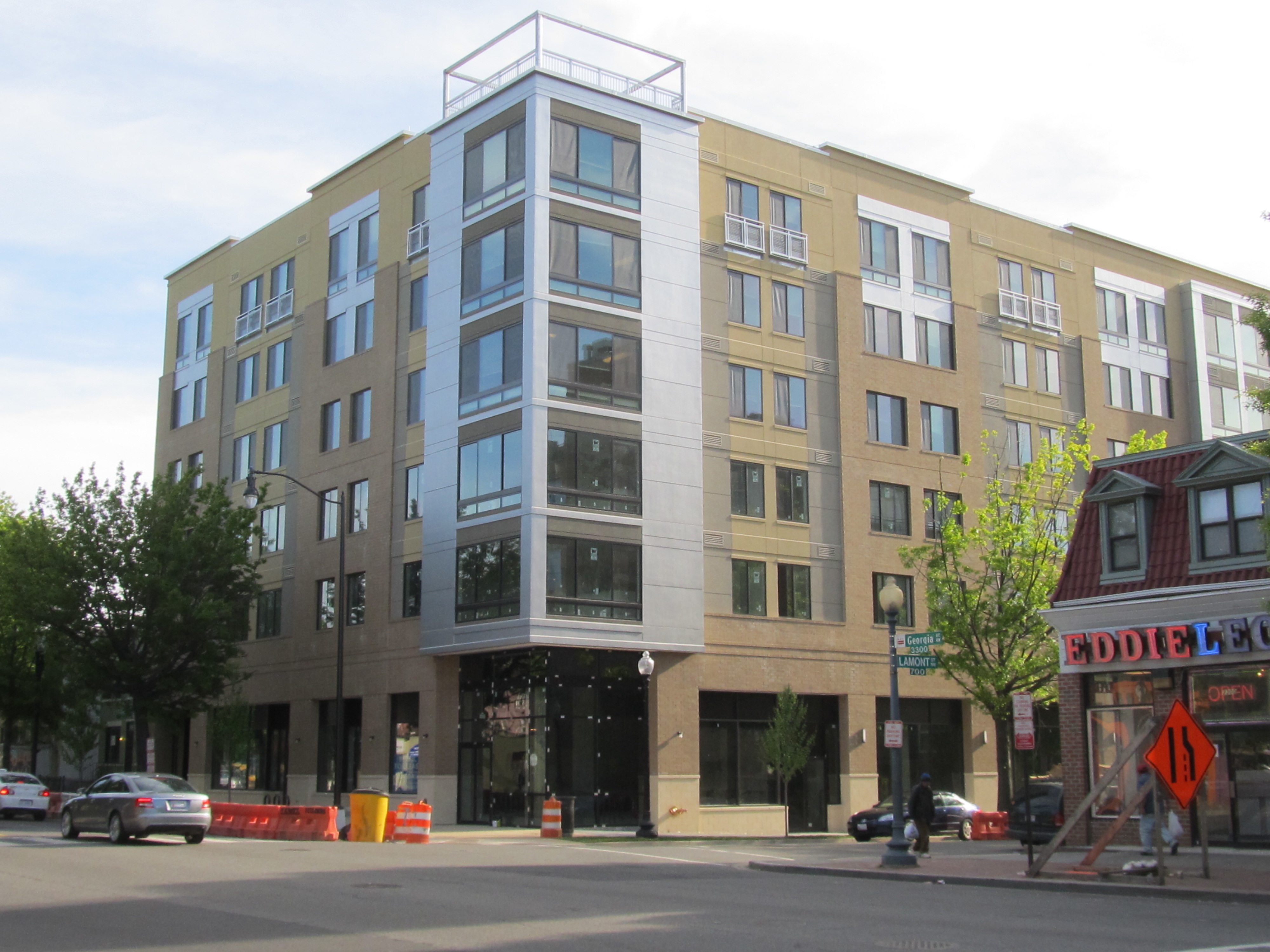 The Heights, located at 3232 Georgia Avenue, shortly after its completion in May 2013